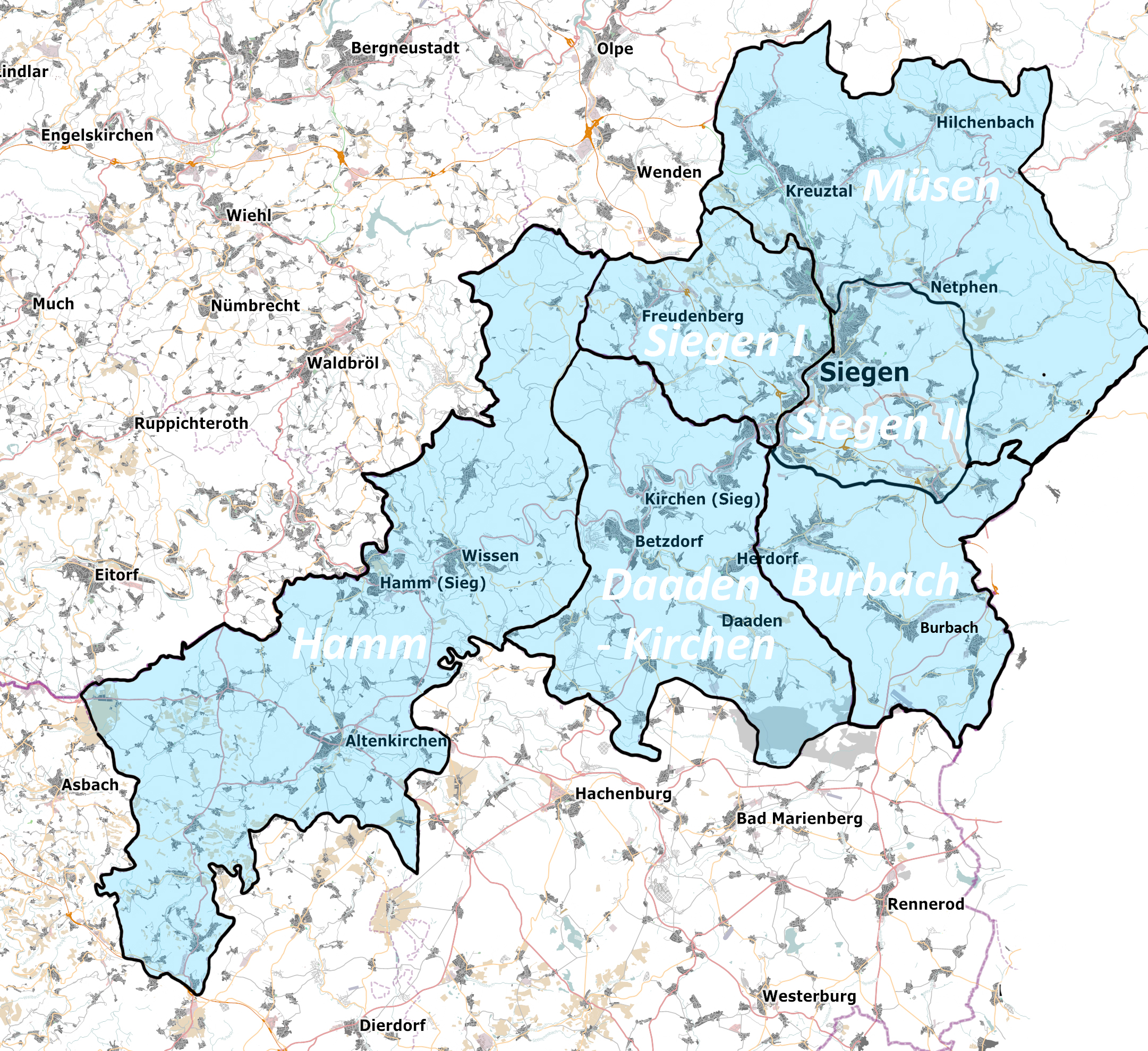 Historic administrative boundaries of mining regions in Siergland.